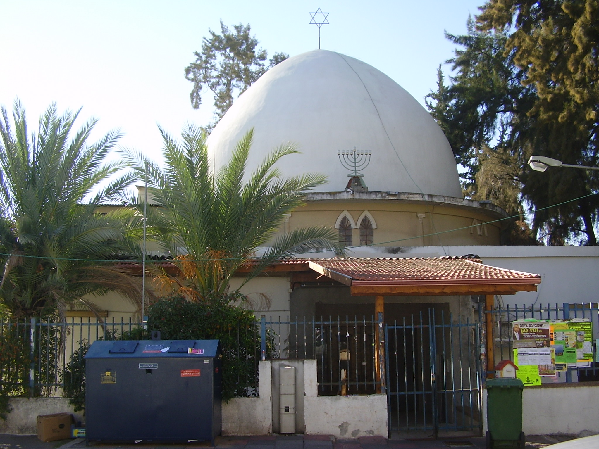 synagogue in ness ziona